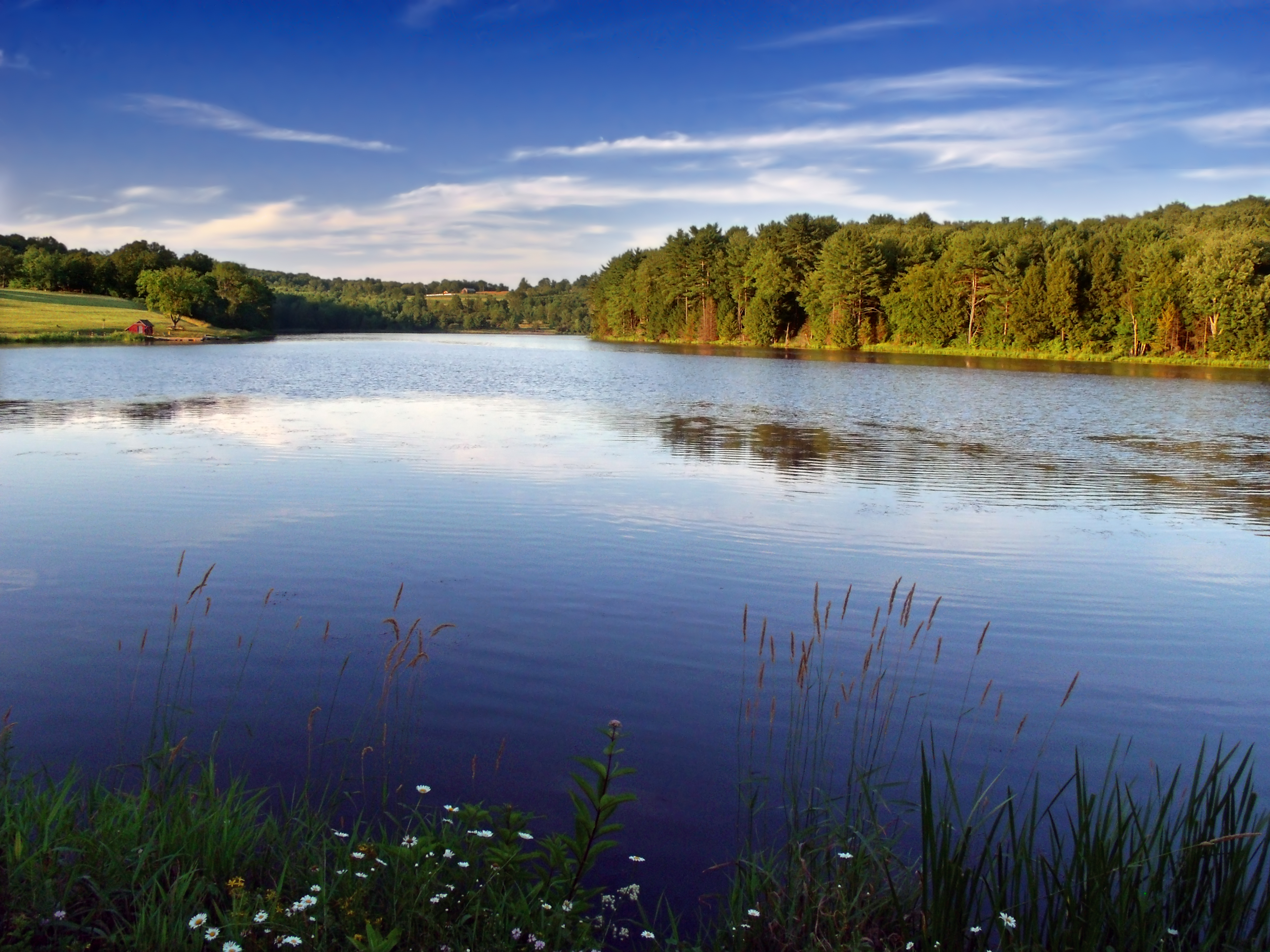 Late-day light, Mount Pisgah State Park, Bradford County. Songwriter Stephen Foster lived in this part of Pennsylvania for a handful of years. A historical marker in nearby Towanda is dedicated to him.